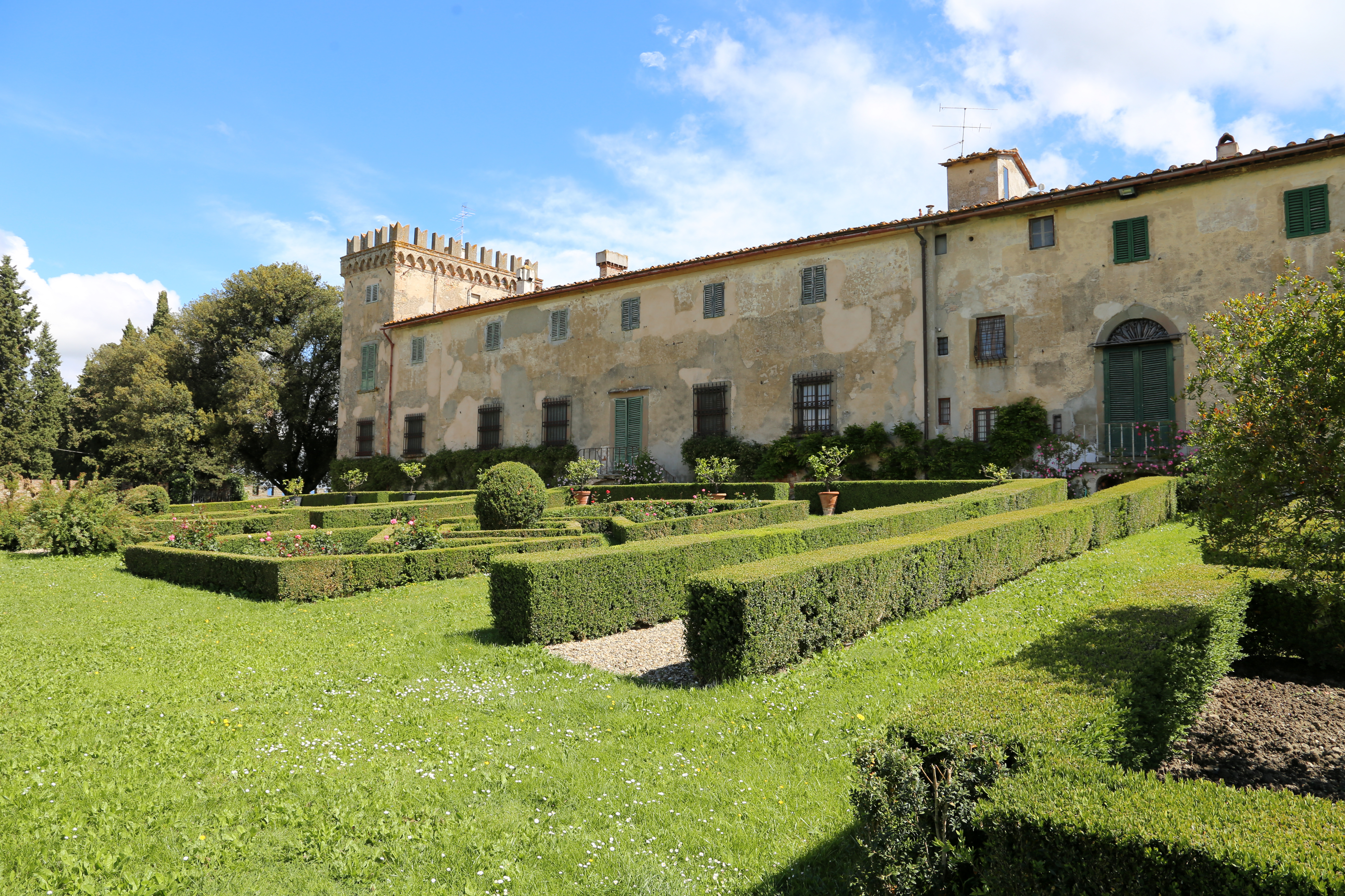 Castel Ruggero (Bagno a Ripoli)